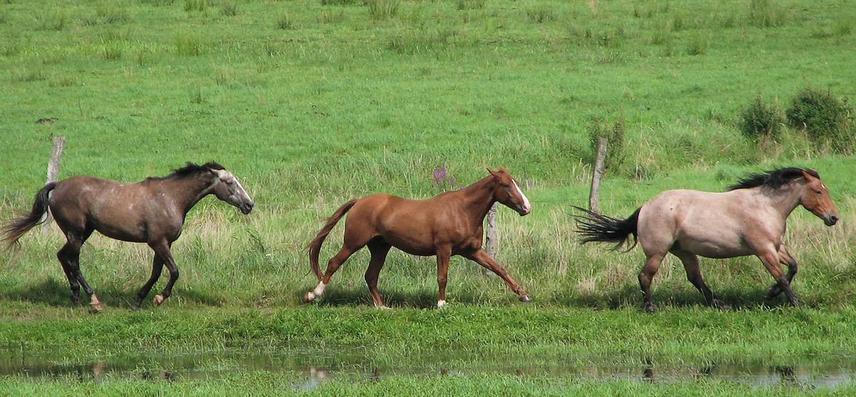 Galopping horsesDifference between grey and roan: left: a grey with bay base color: the head greys faster right: a bay roan: the head is dark